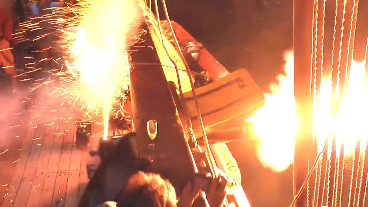 Canon shot because of New Year's Eve in the harbour of La Gormea